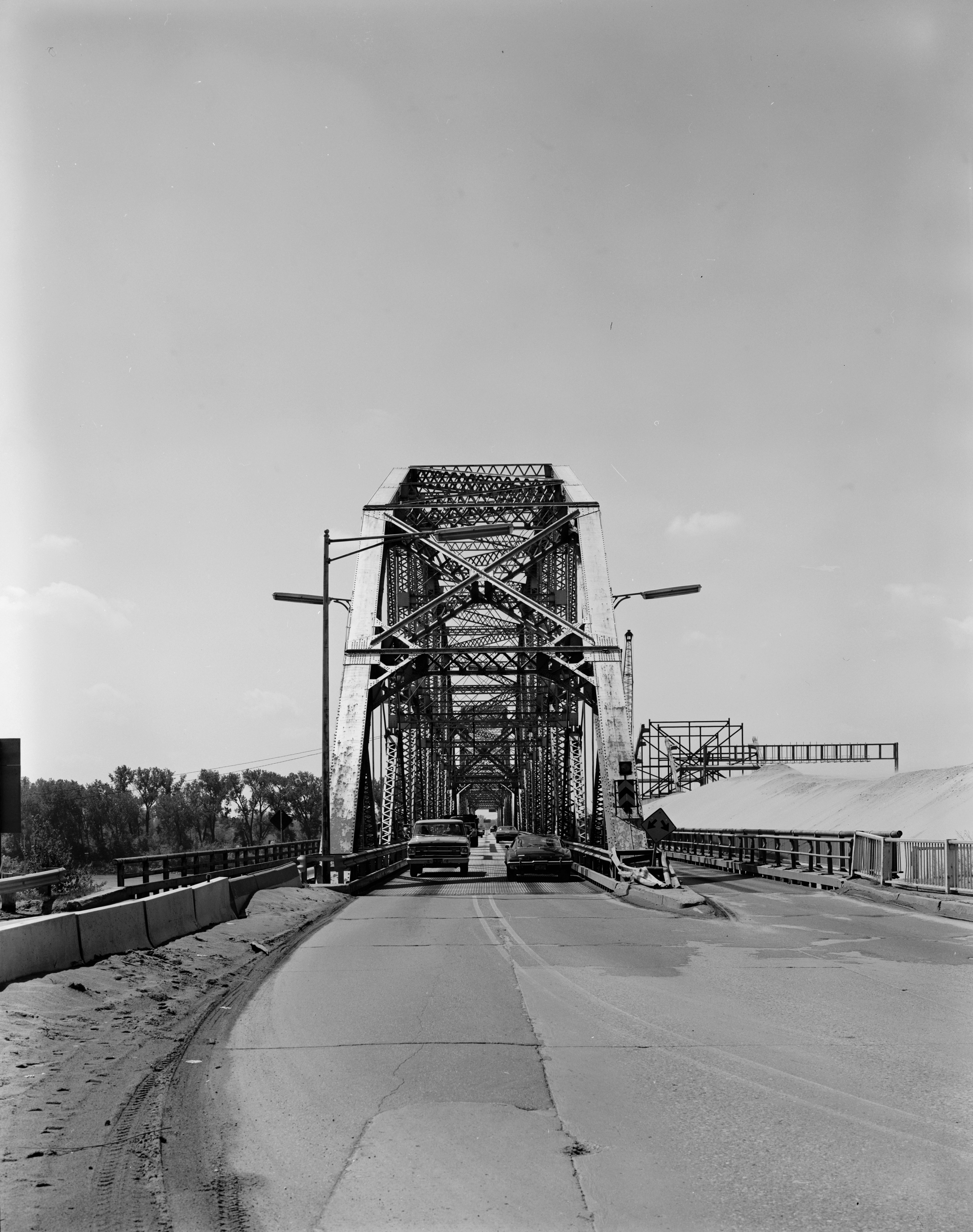 Barrel Shot of North Fixed Span in Iowa, Looking S.